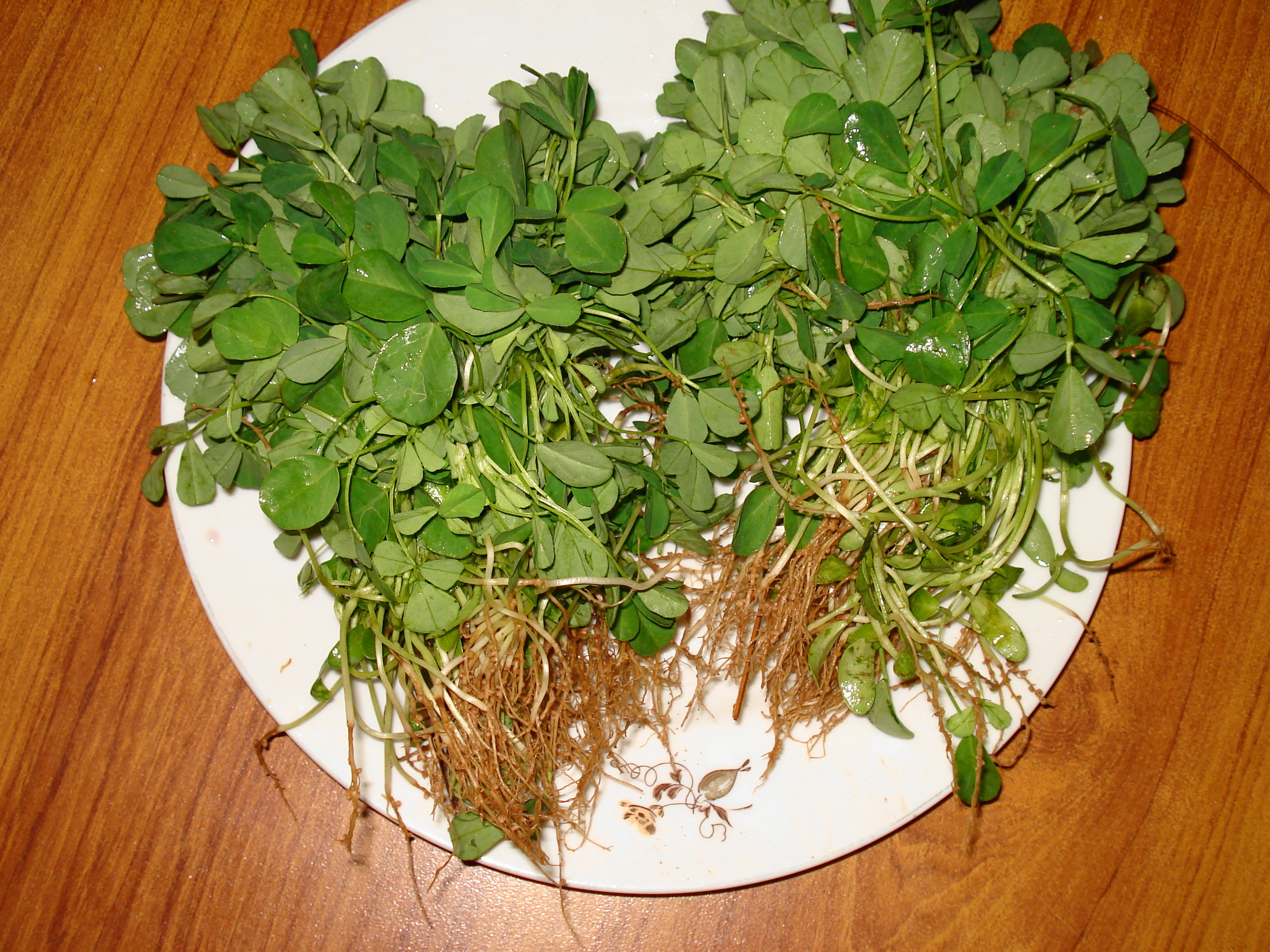 Fenugreek Leaves is known as Qasuri Methi in urdu, Qasure is a district in Punjab near Lahore. Qasuri Methi is known form its flavor.